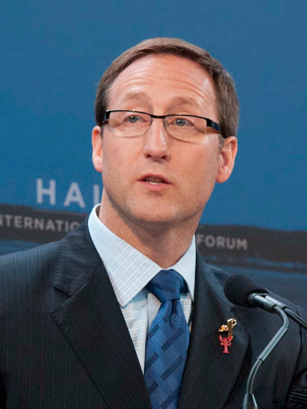 Canadian Minister of Defence Peter MacKay